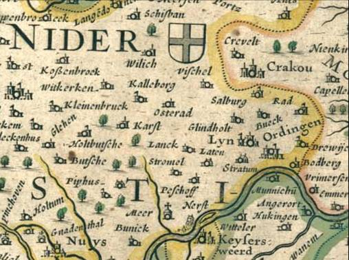 Part of the Dutch map of the electorate of Cologne showing the region of Crefeld/Krefeld, Neuss, Duesseldorf, Ossum, Struemp, Osterath, Boesinghoven, Linn, Uerdingen (detailed view)